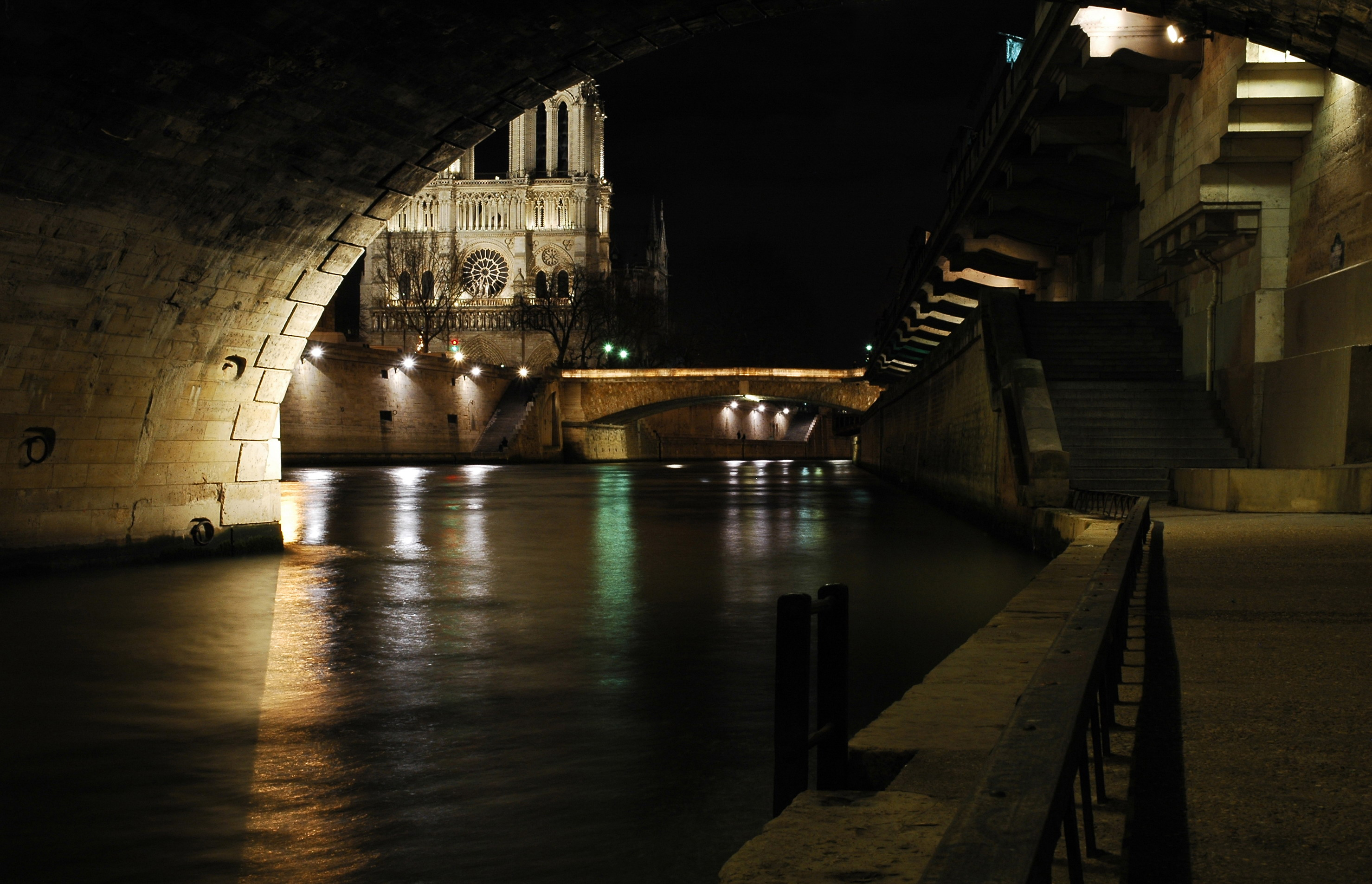 View of Notre Dame de Paris Cathedral from under the Saint-Michel bridge. Paris, France.